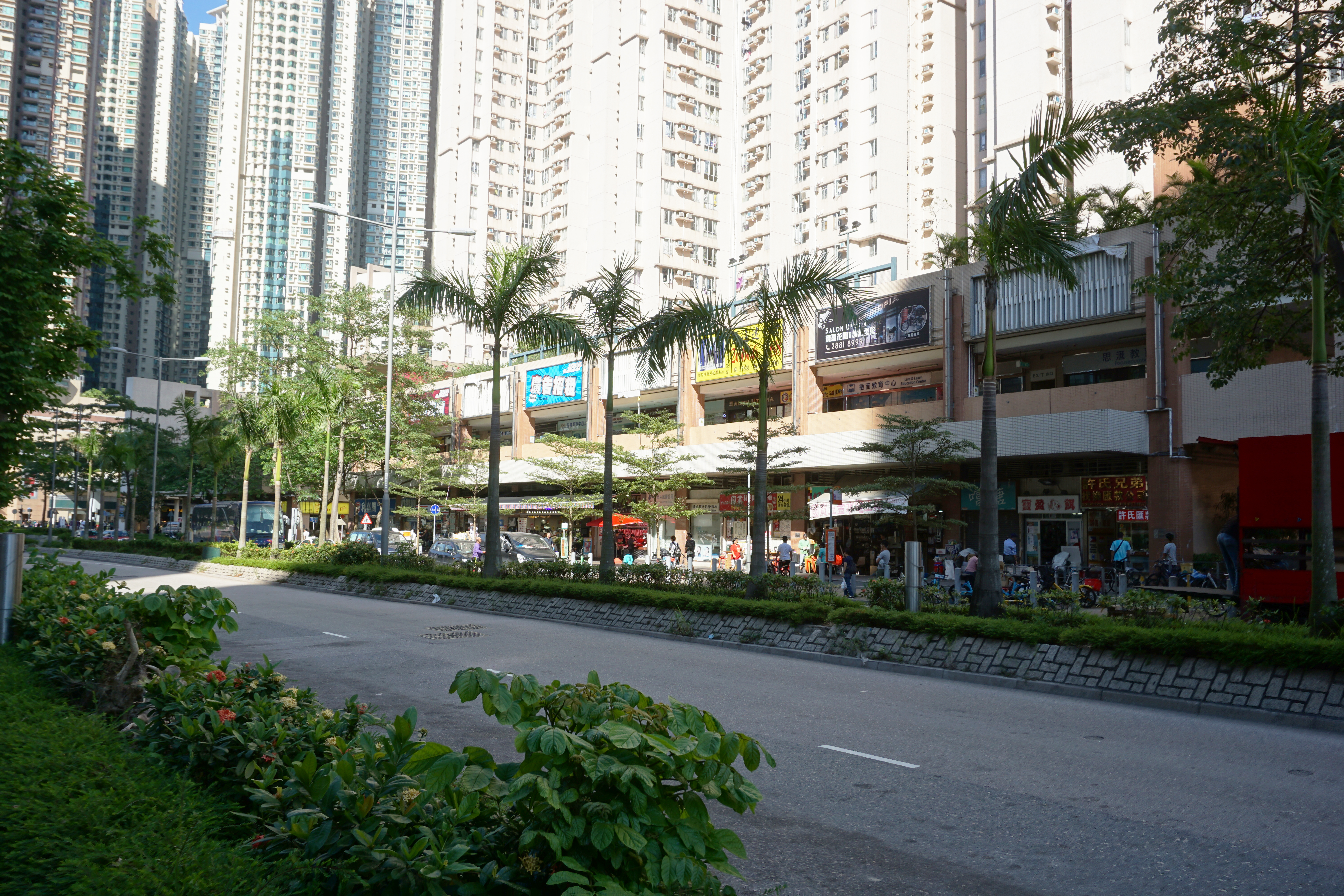 Bauhinia Garden in Tseung Kwan O, Hong Kong.